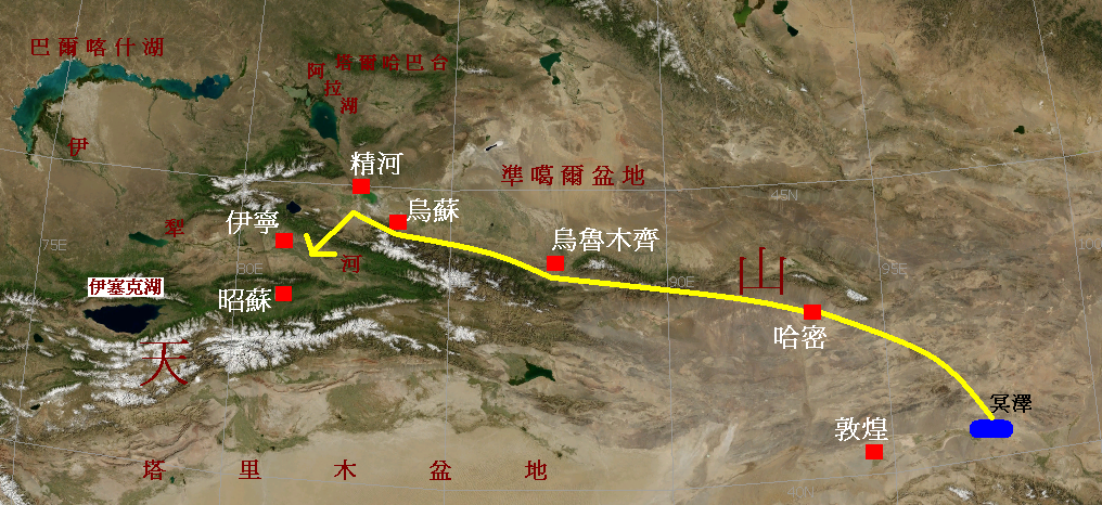 Migration route of Wusun in Western Han Dynasty. Scale: 1cm to 153.15km